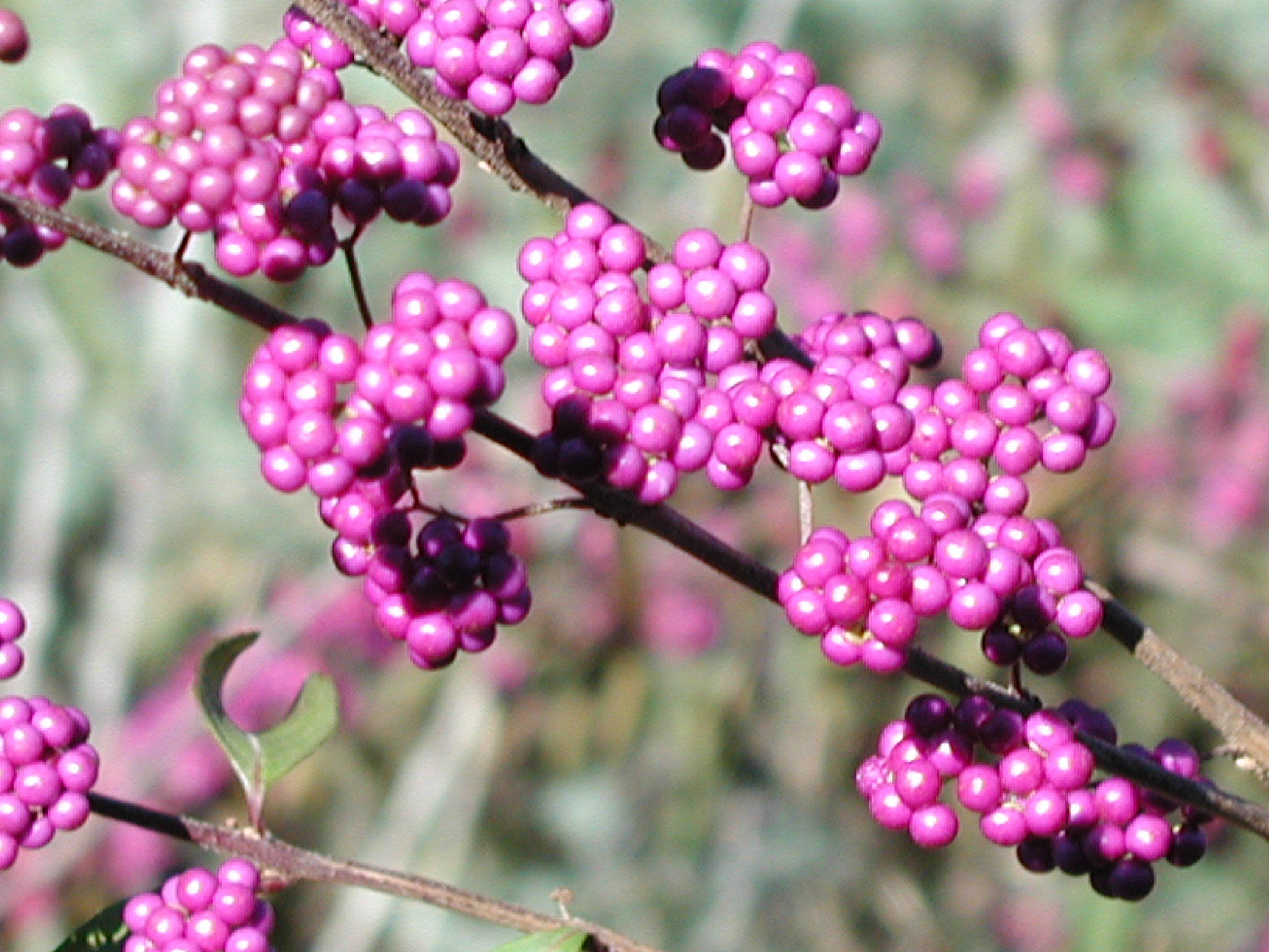 American Beautyberry (Callicarpa americana). Closeup photo taken 10-30-2008, North Carolina.